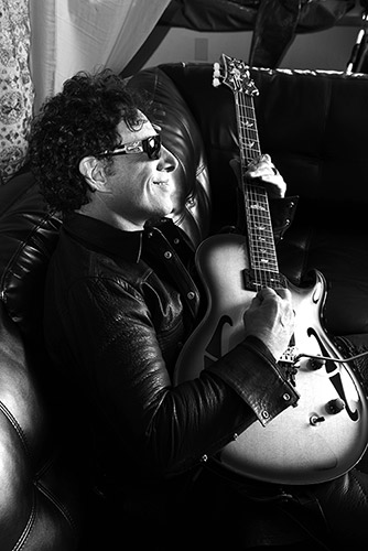 Neal Schon, American rock guitarist, songwriter, and vocalist